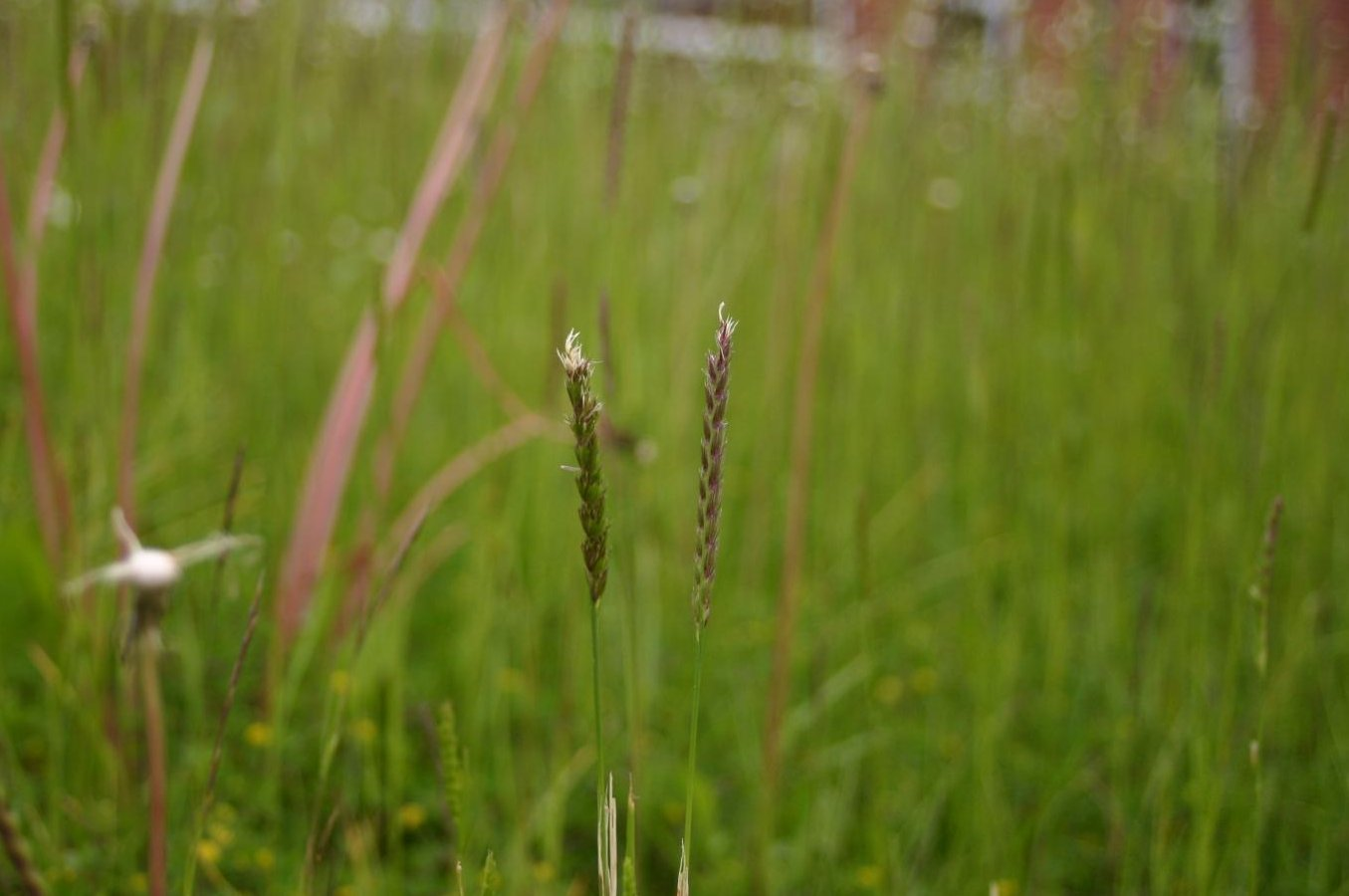 Cynosurus cristatus: flowering plants